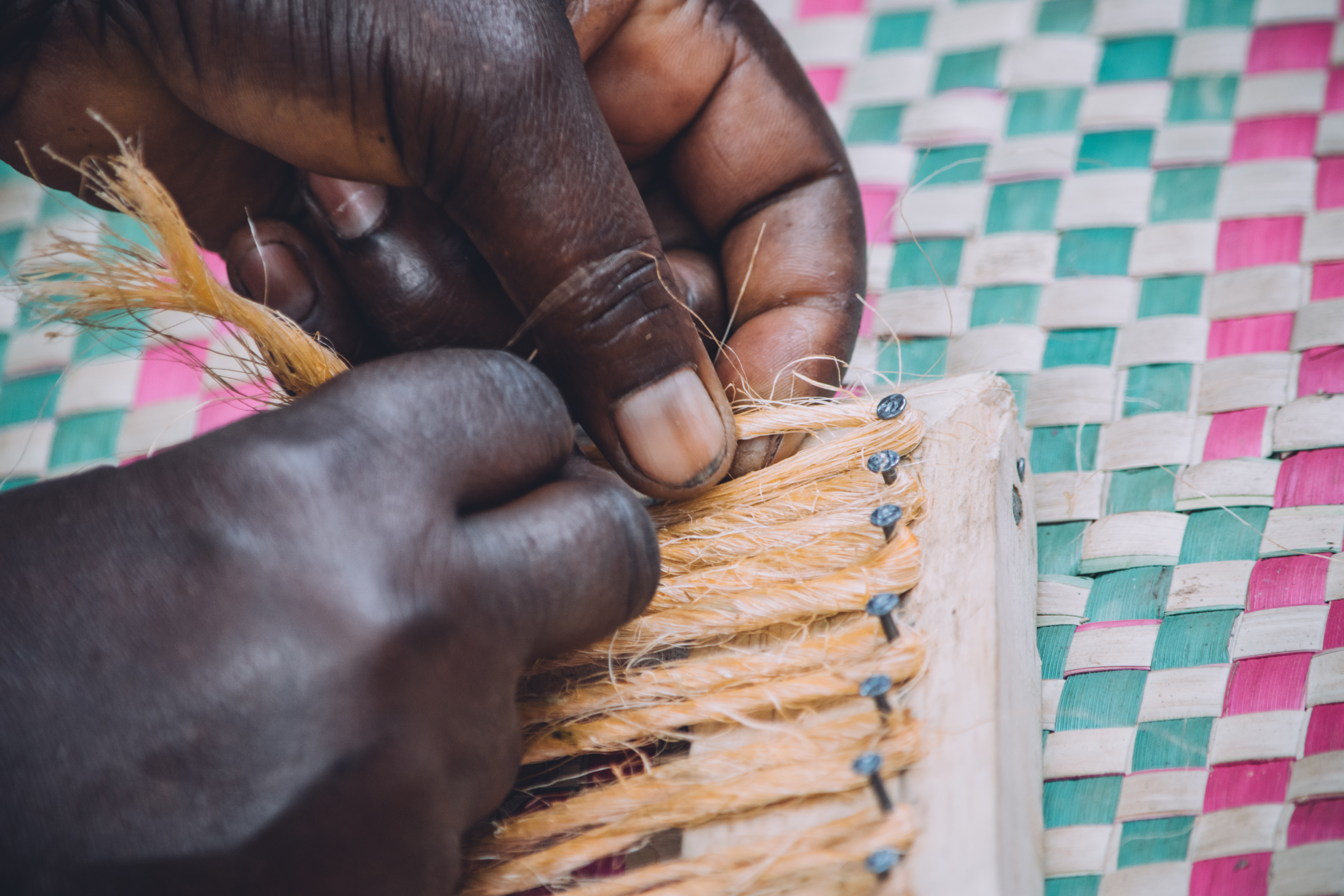 A woman from Western Uganda in the early stages of knitting a door mat from sisal fibre. This is an image of "African people at work" from Uganda